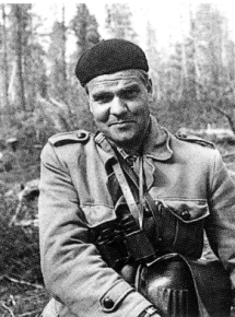 Photograph of the Finnish writer Reino Kalliola (1909–1982).